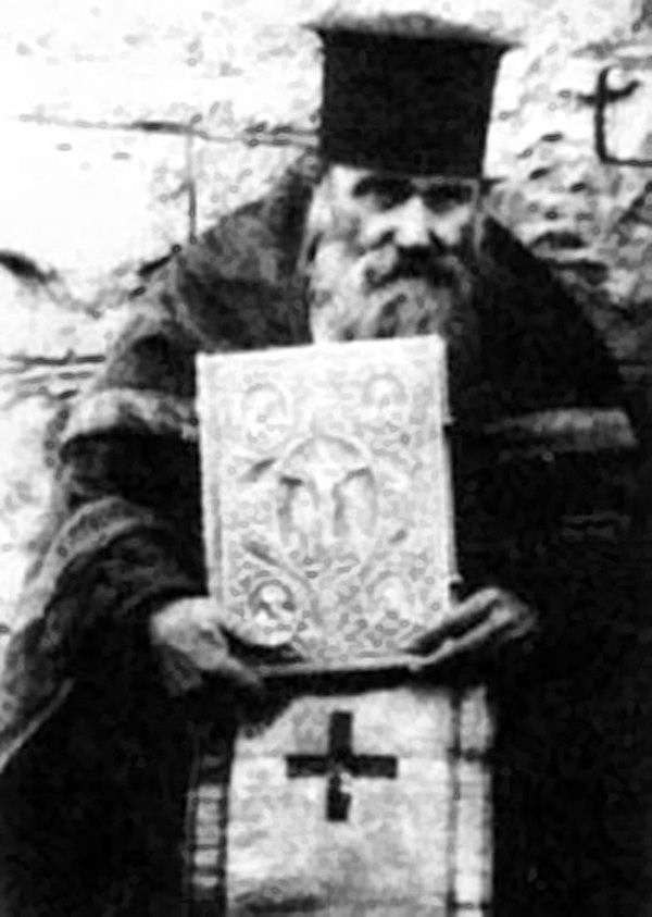 Saint Nicholas Planas of Athens (1851-1932). His feast day is celebrated on March 2.